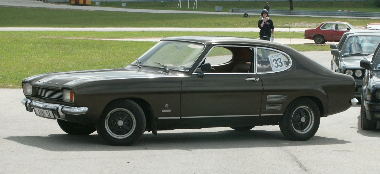 Ford Capri 1st series, in Kielce Race Track, Poland